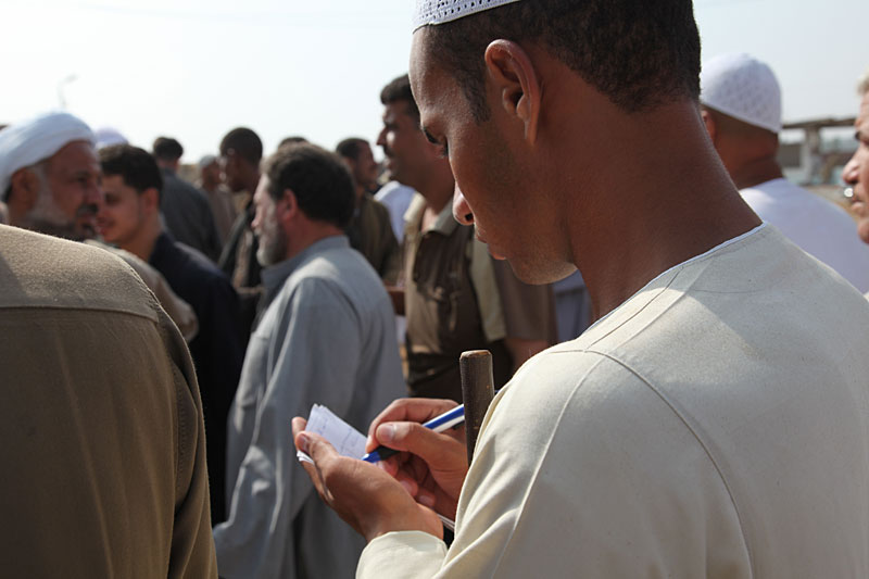 Camel market at Birqash